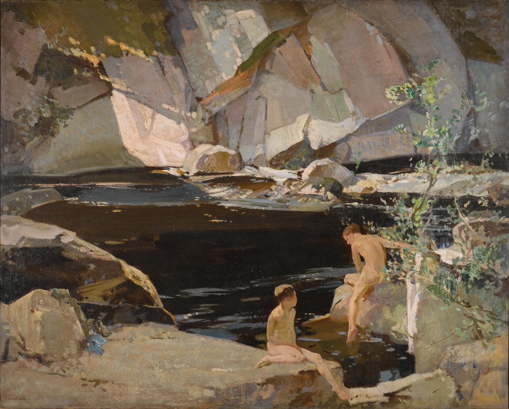 HARRY WATSON, R.W.S., R.O.I. 1871-1936 TWO BOYS BATHING IN A ROCKPOOL signed l.l.: HARRY WATSON oil on canvas 122 by 152cm., 48 by 59¾in.